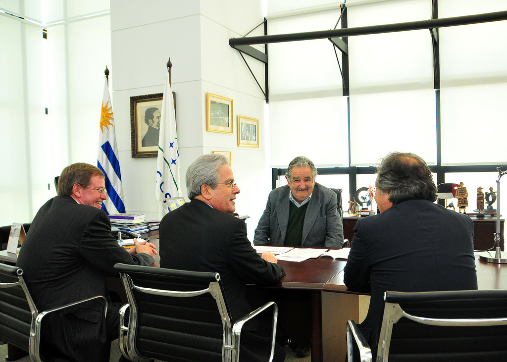 President of Uruguay, José Mujica